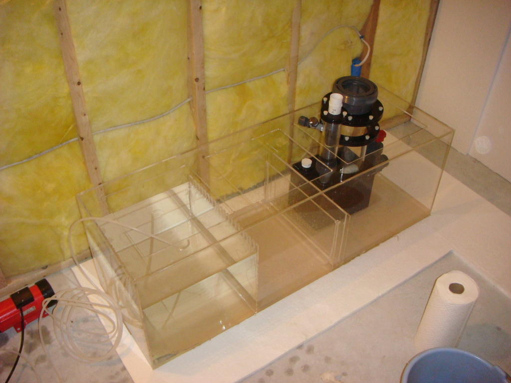 Marine Aquariam filtration equipment - A new sump with three compartments including a protein skimmer